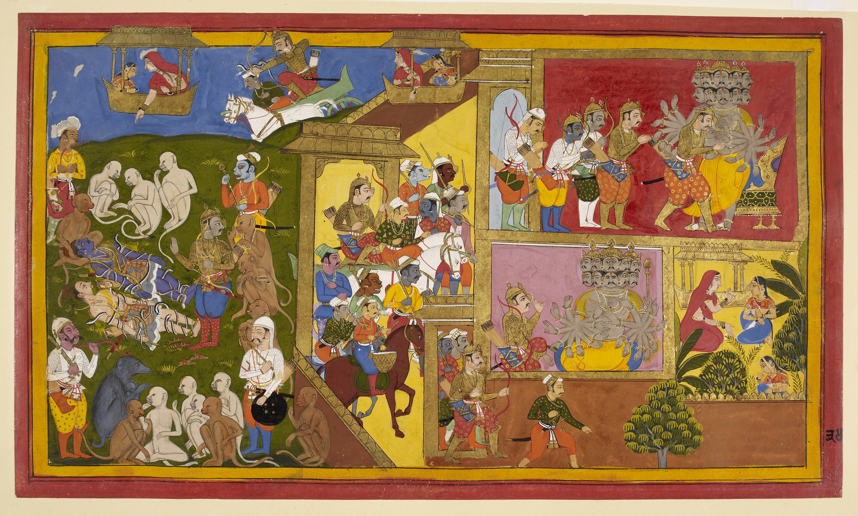 Rama & Lakshmana bound Rama & Lakhsmana lie on the battlefield, ensnared in the weapons of Indrajit, the monkeys and generals stand around them. Indrajit returns to the city in triumph and is congratulated by his father. Ravana makes Trijata take Sita in the Puspaka chariot over the battlefield to see her husband lying slain.